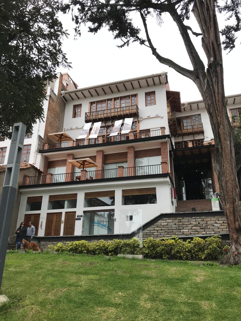 Museum's back front